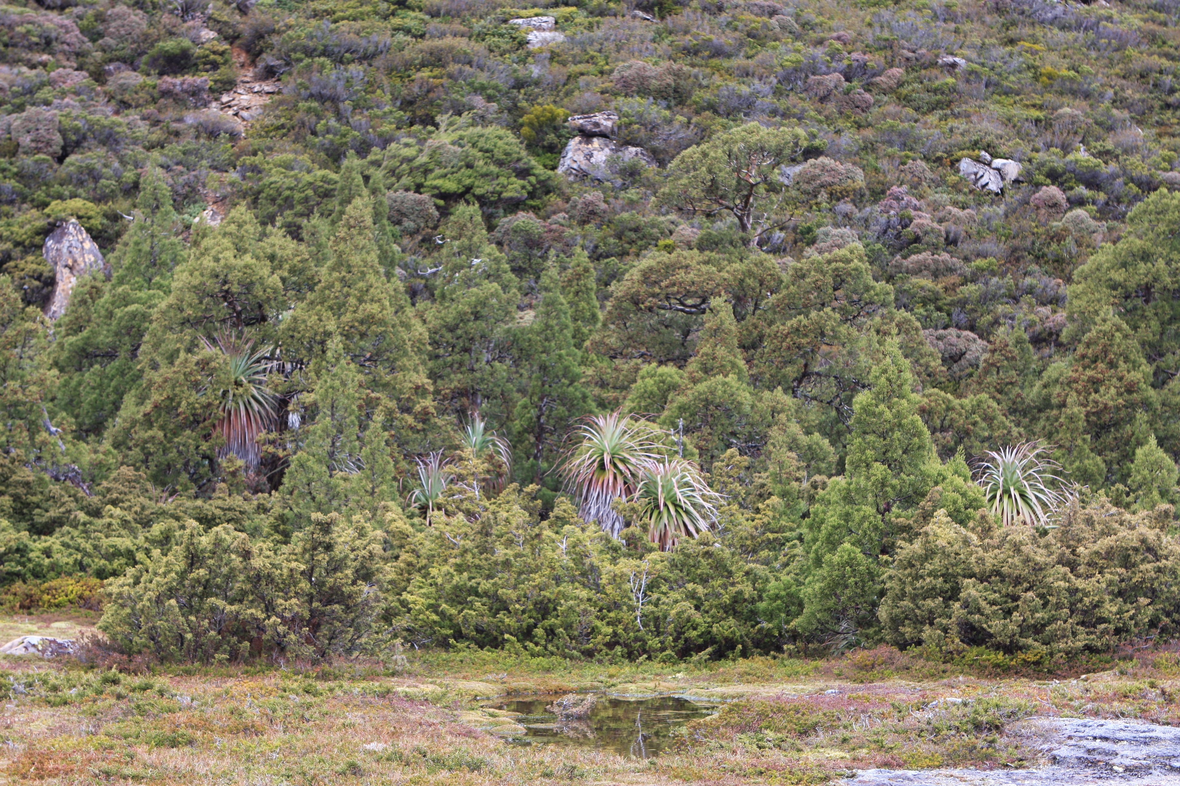 Day 1 of the Overland Track Richea pandanifolia (Pandani or Giant Grass Tree) These are remarkable plants, they are growing in quite a harsh alpine area. It is endemic to Tasmania. Australia oz2009 054